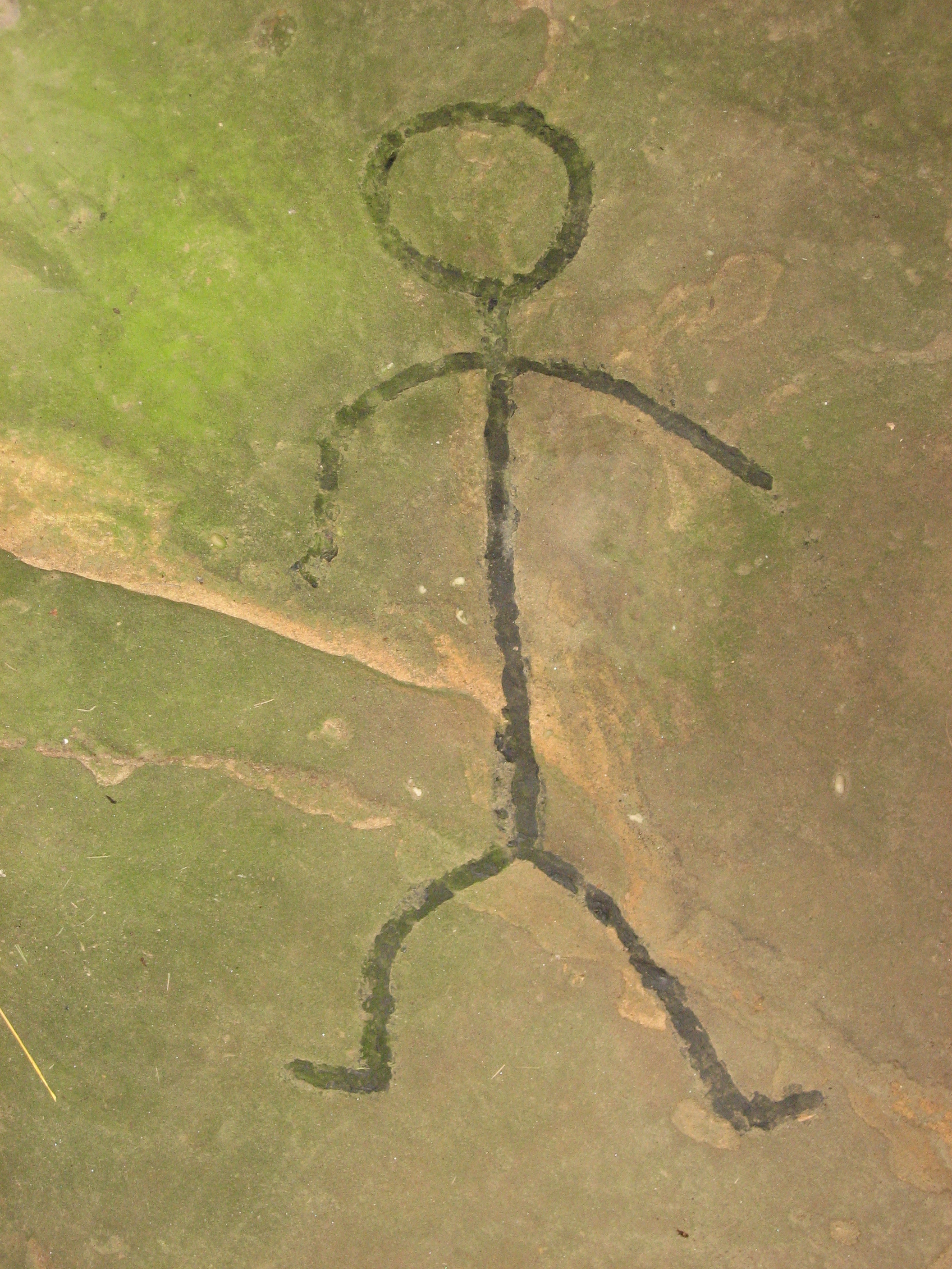 Petroglyph of a human stick figure on the Leo Petroglyph, located west of Leo in Jackson Township, Jackson County, Ohio, United States. Carved by the prehistoric Fort Ancient culture, it is listed on the National Register of Historic Places.